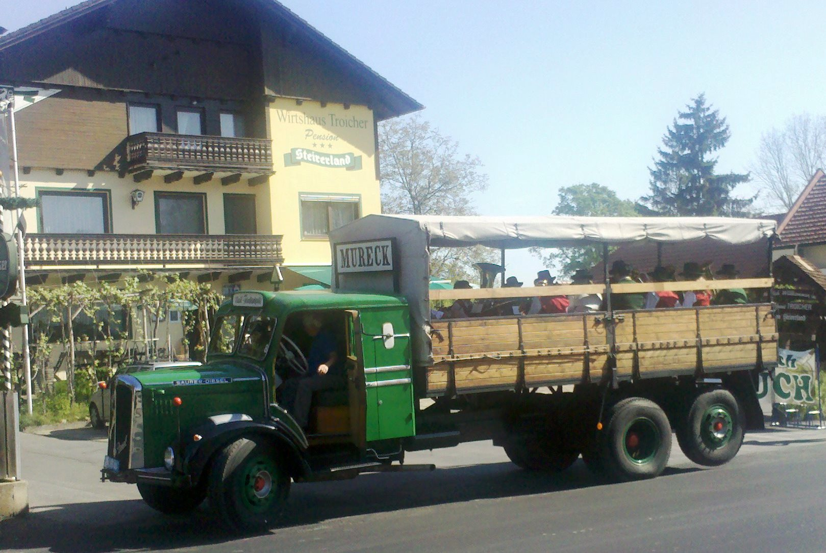 Grenzlandtrachtenkapelle Mureck(a local marching band) on a restored Truck on may 1 in front of restaurant Troicher in Mureck.